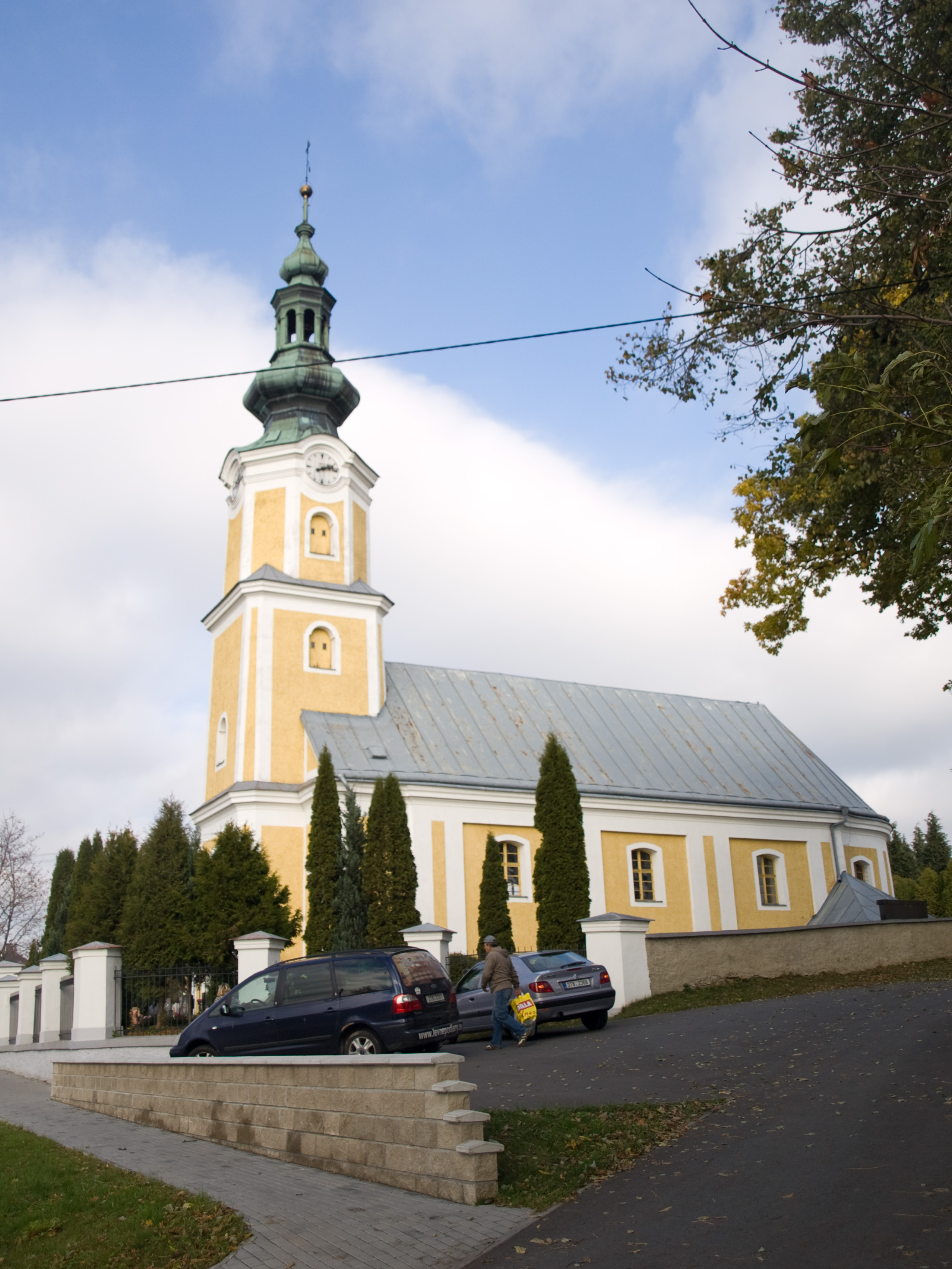 Church of Saint Barbara and Saint Catherine, Světlá Hora, Bruntál District, Moravian-Silesian Region